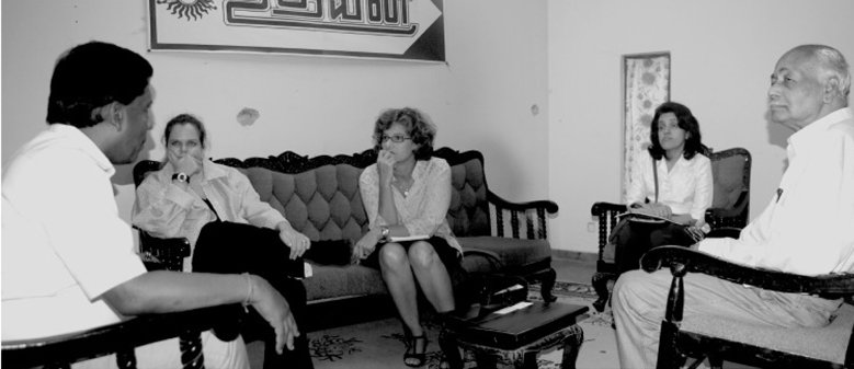 A delegation headed by Ms. Heather Variava (Second from Left), Director of South and Central Asia of the US Department of State met E. Saravanapavan, M.P.(Far Left), a Member of Parliament in Sri Lanka and Managing Director of Uthayan Publications at his office in Jaffna on 28th November 2012. Others in the picture are M. V. Kanamaylnathan, Editor-in-chief, Allison Areias-Vogel, Economic Counselor, U.S Embassy, Colombo and Ms. Manohari Dharmadasa, Economic Adviser, U.S. Embassy, Colombo.